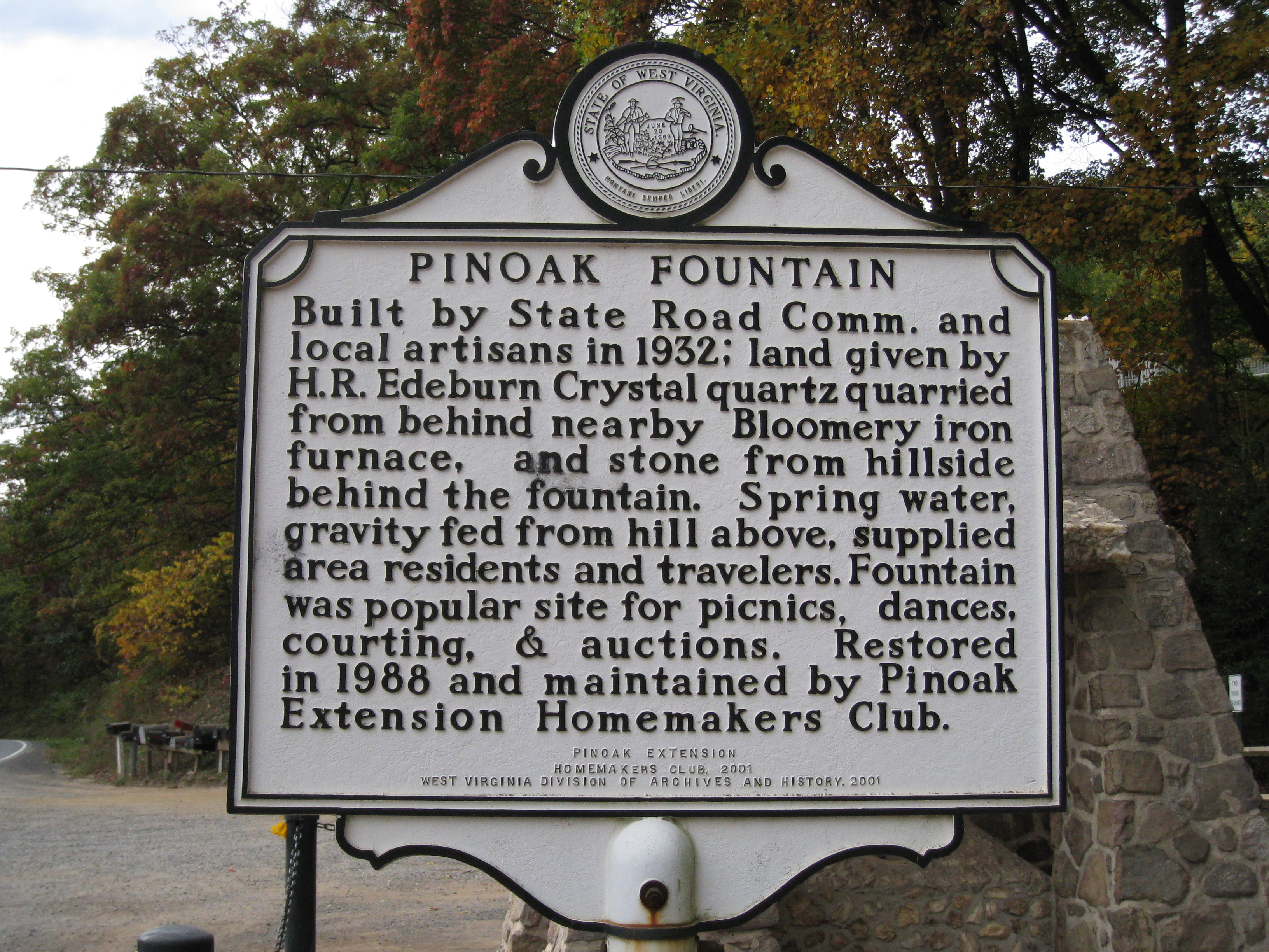 Pin Oak Fountain Historic Marker along West Virginia Route 29 near Pin Oak, West Virginia, United States. Pin Oak Fountain Historic Marker along West Virginia Route 29 near Pin Oak, West Virginia, United States.IMG_7664